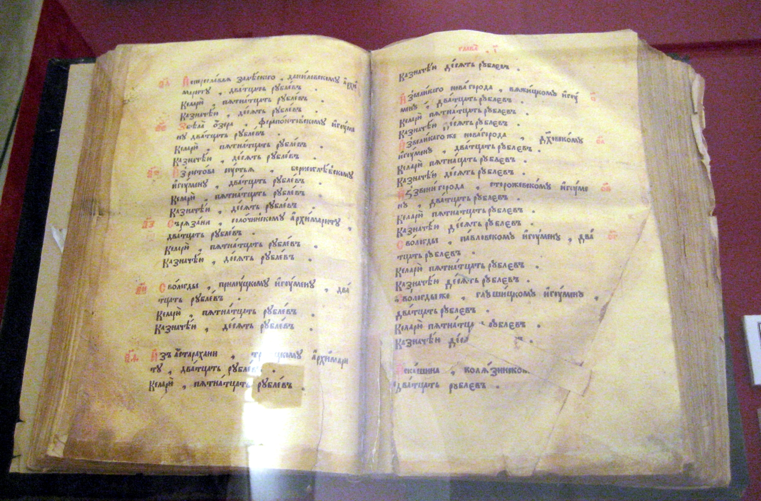 Sobornoye Ulozheniye. Moscow, Printing Yard 1649. St. Therapontus Monastery. At the start pages: "Year 7159 (1651), January 25 day, Fedor petrov sun of Zinoviy gave this book, Code of Law of Sobornoe Ulozhenie, to the House of the Most-Pure Virgin of Therapontus Monastery, and Fedor Zinoviev had signed it by his own hand."